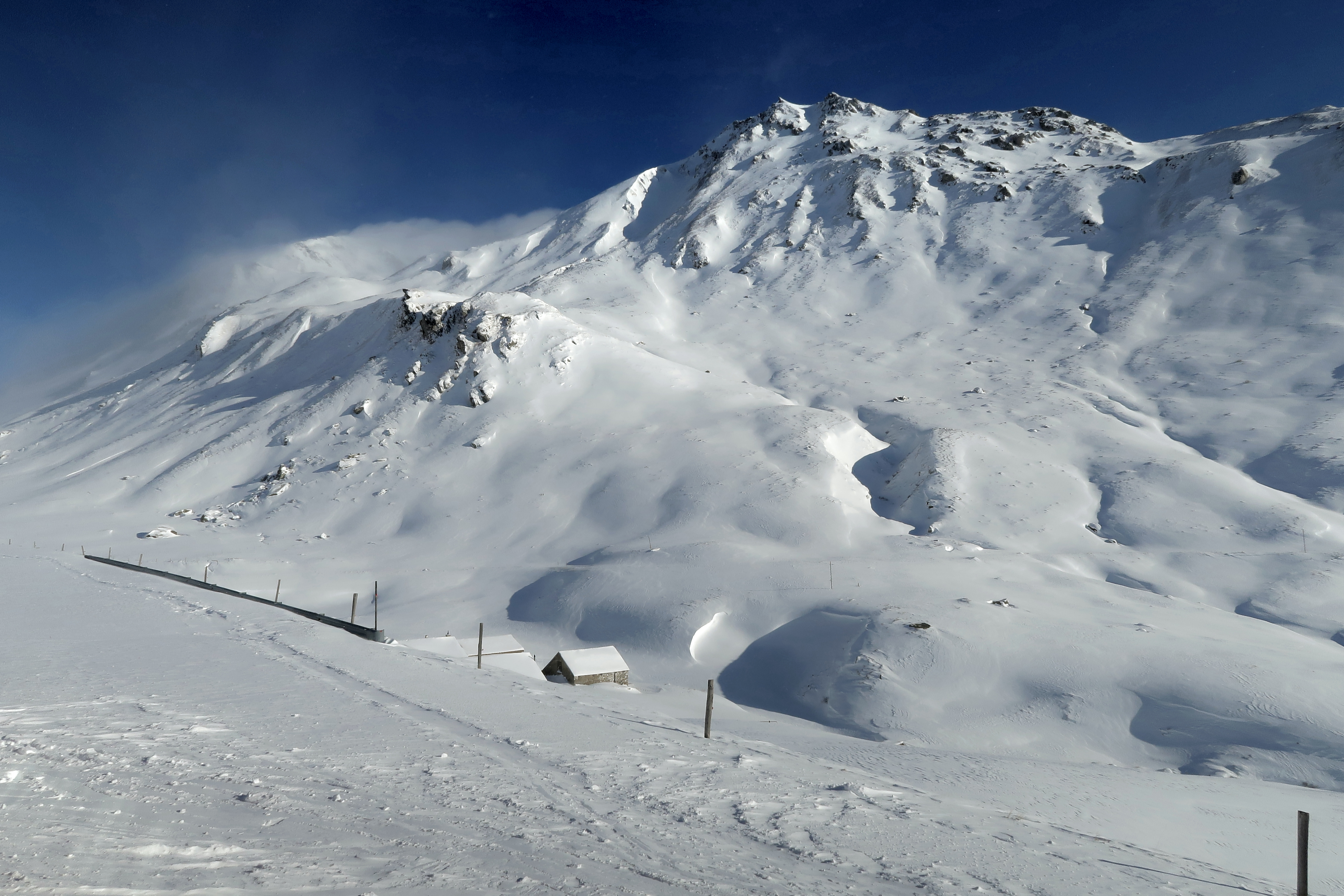 The first houses in the area 'Schöni' from Nätschen in direction towards Oberalp Pass. In the foreground the snow-covered pass road with a blurred track. In the background the mountain Pazolastock with a height of 2739 m/8986 ft. Switzerland, Jan 17, 2017. Piz Nurschalas / Pazolastock